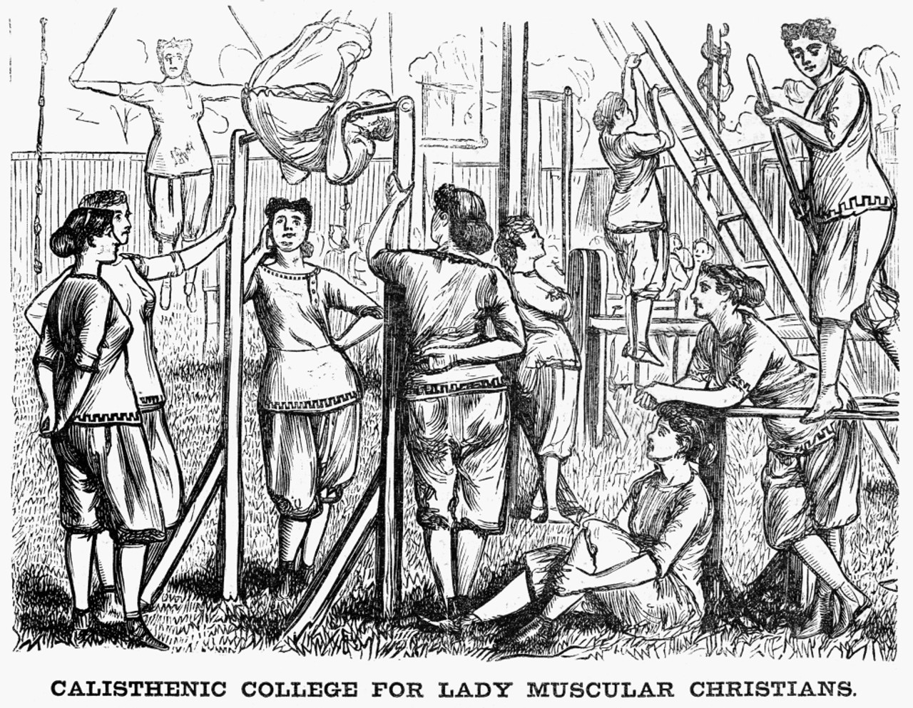 Ladies practice various calisthenic exercises such as climbing the underside of a ladder, balancing and gymnastics. The text caption references Muscular Christianity which is a Christian school of thought which emphasises spiritual wellbeing through physical health and strength.